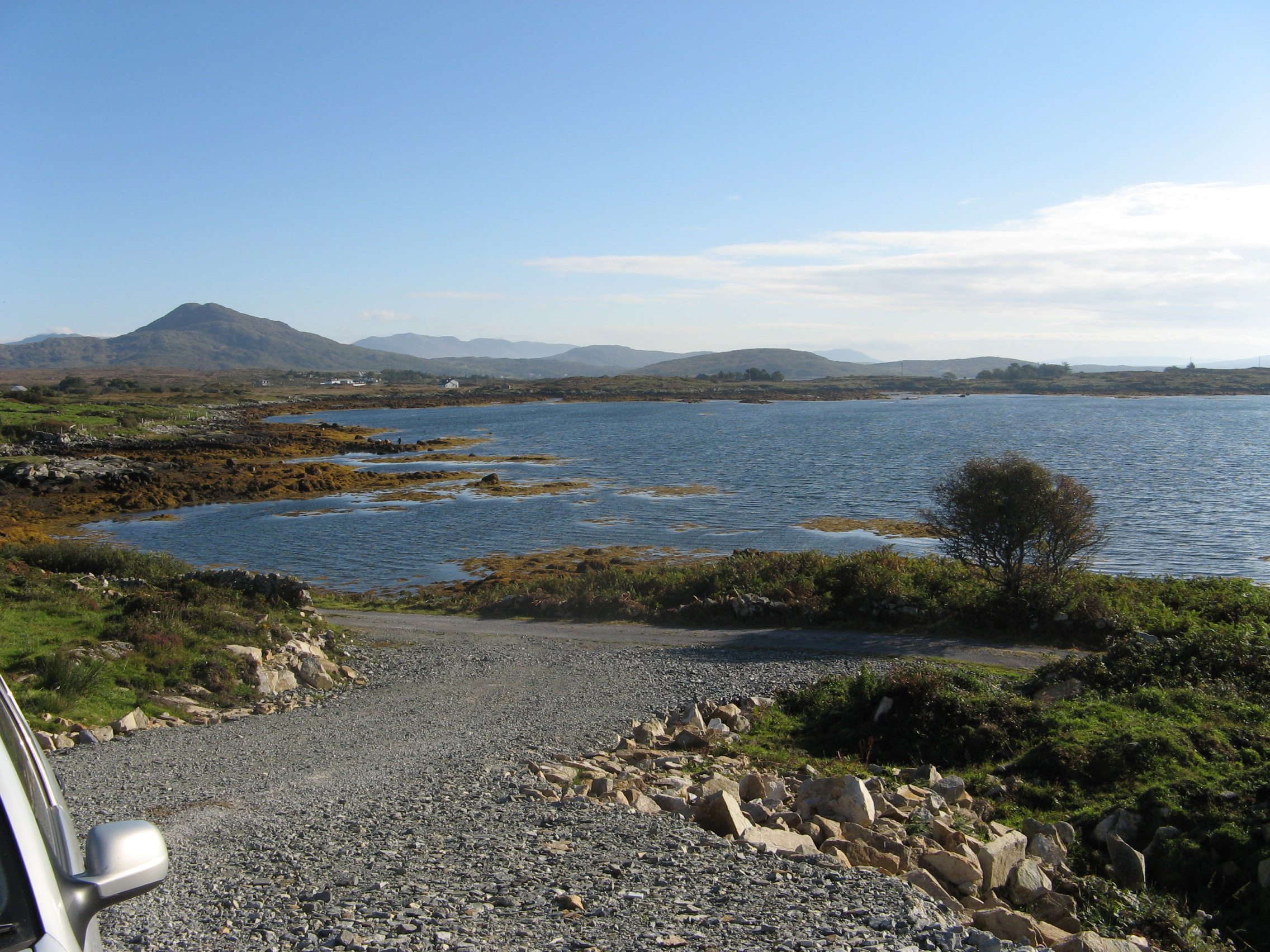 The sea seen from Cashel, County Galway, Ireland.